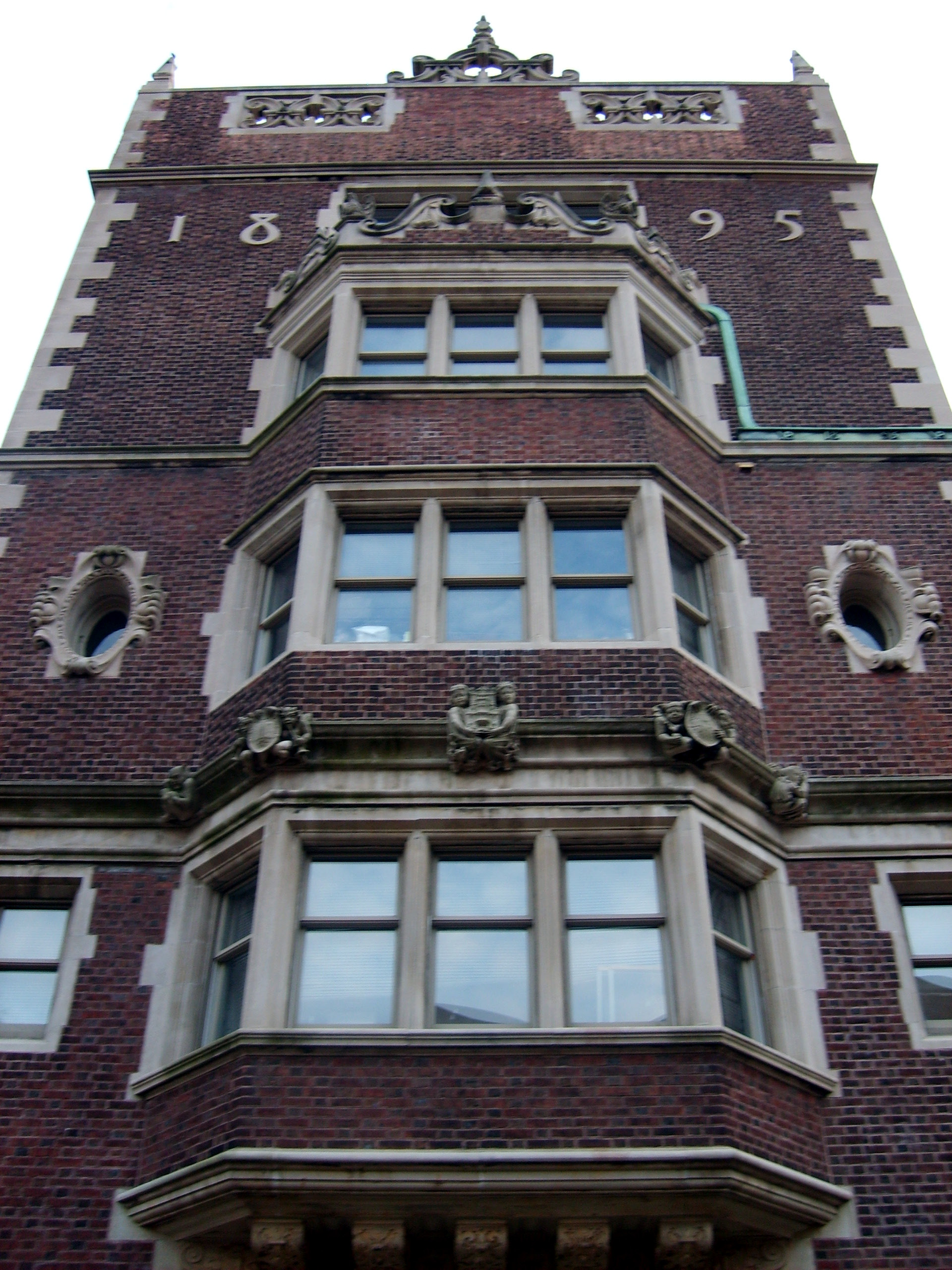 Fisher-Hassenfeld College House in The Triangle (1895), University of Pennsylvania